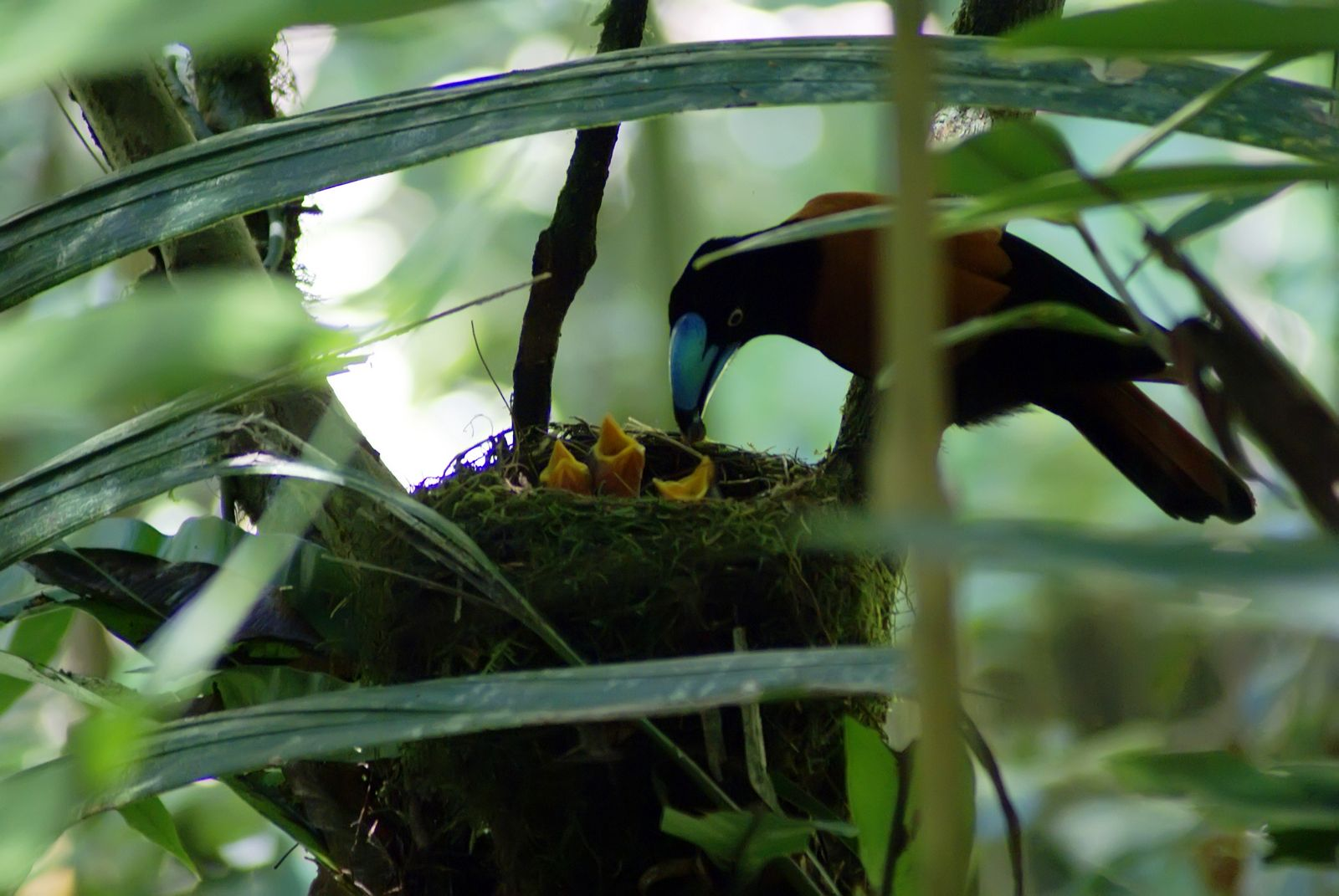 Helmet Vanga - Euryceros prevostii